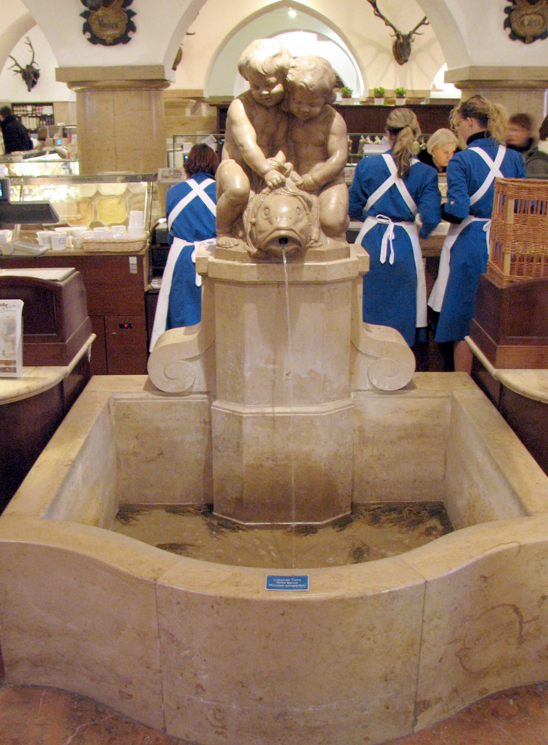 The fountain with life crayfish inside of Dallmayr's in Munich, Germany.